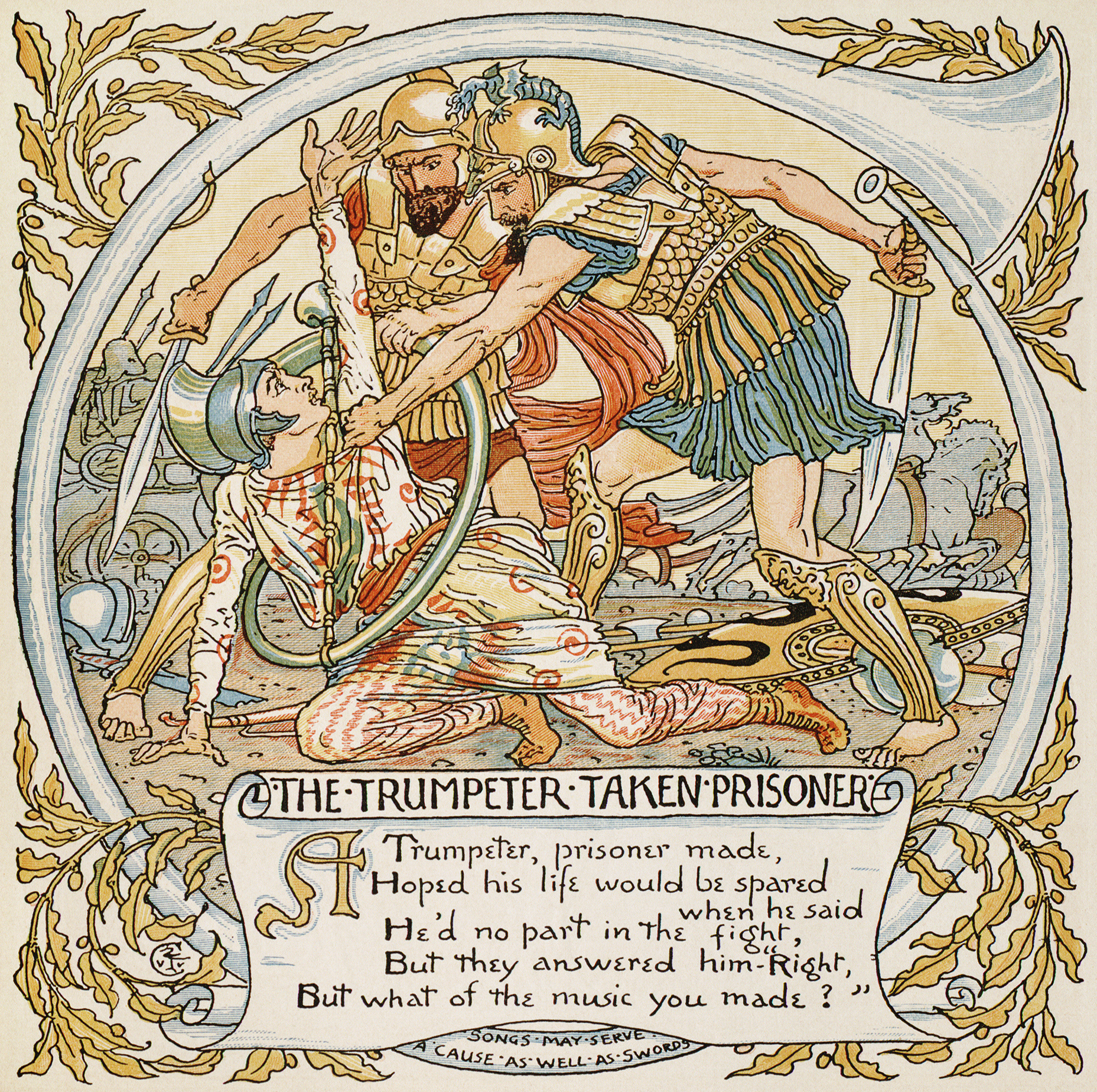 Illustration for "The Trumpeter Taken Prisoner" from Baby's Own Aesop, a children's edition of Aesop's fables[1]